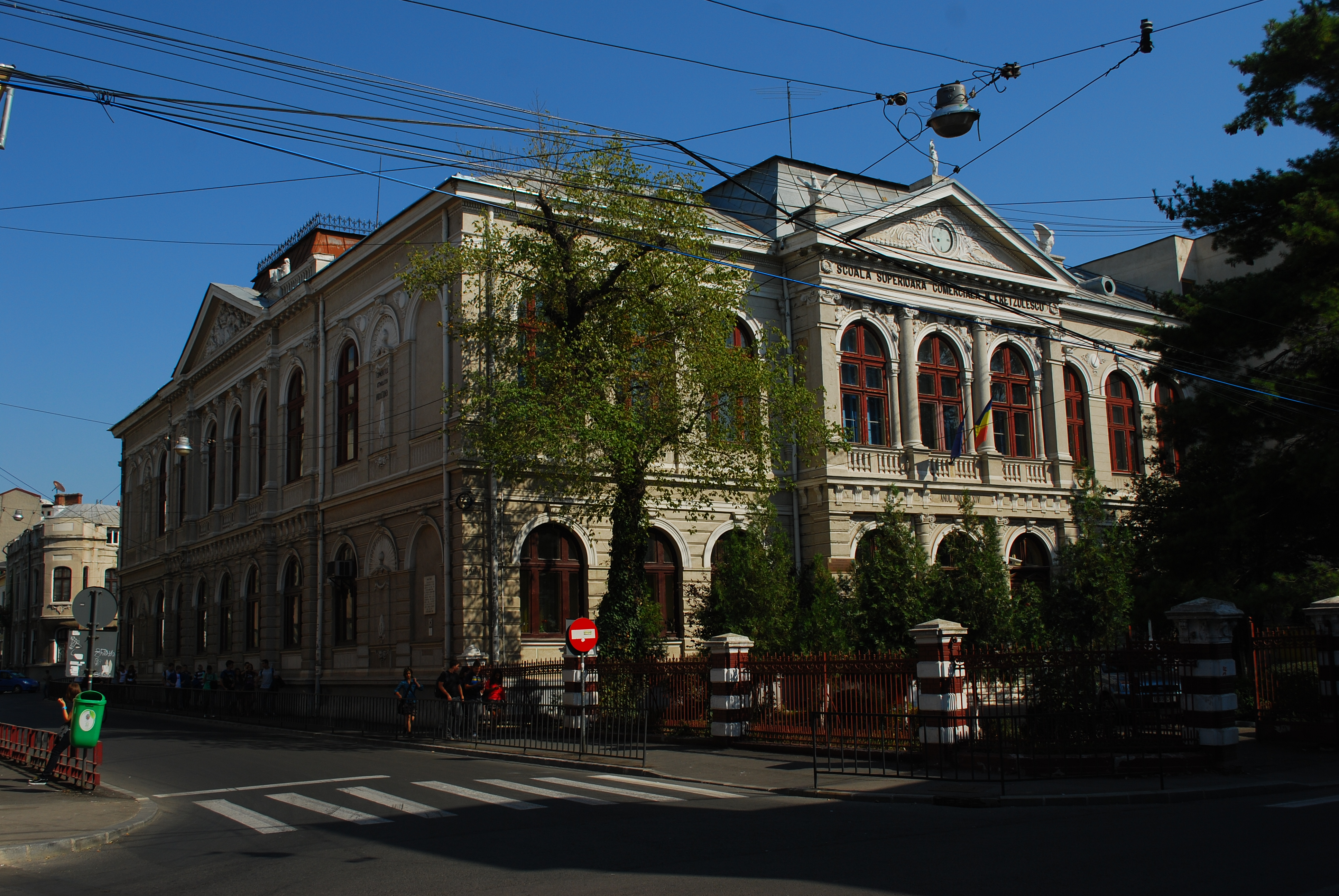 Kretzulescu commercial school in Bucharest, Romania